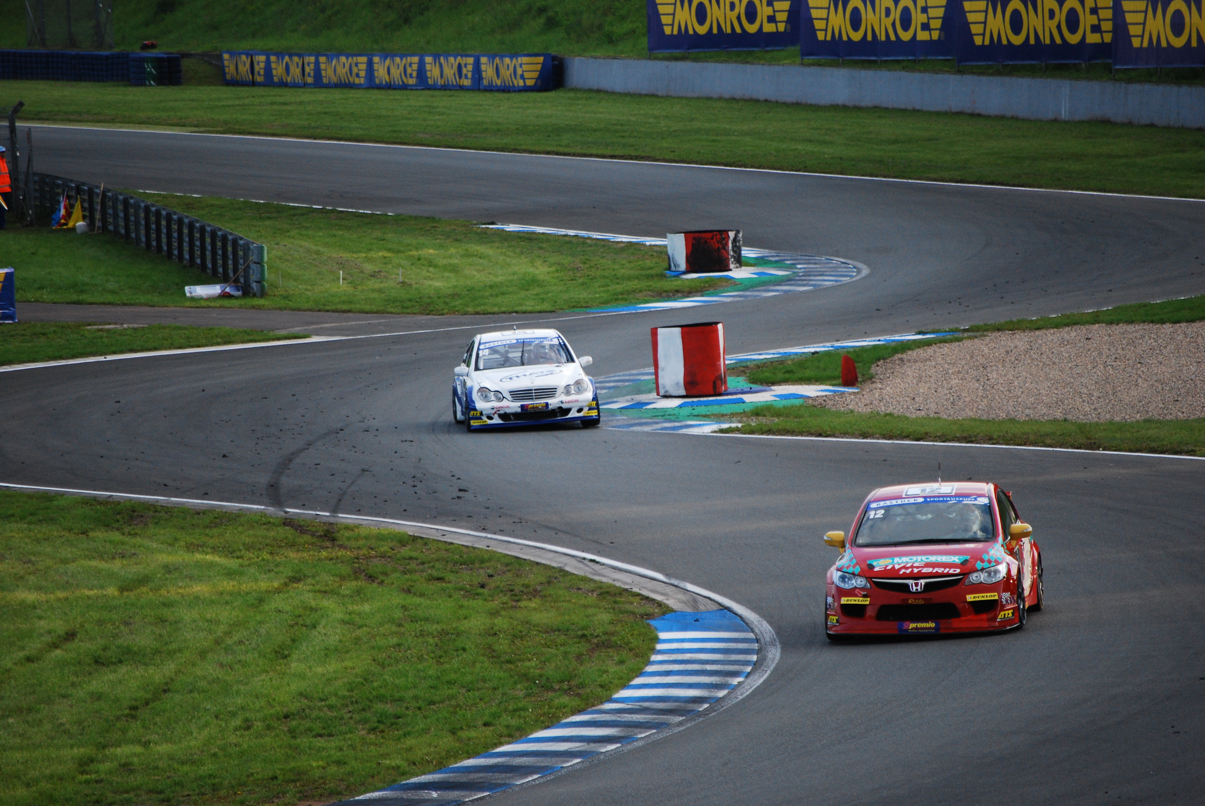 2010 ADAC Procar Series Oschersleben Race 2